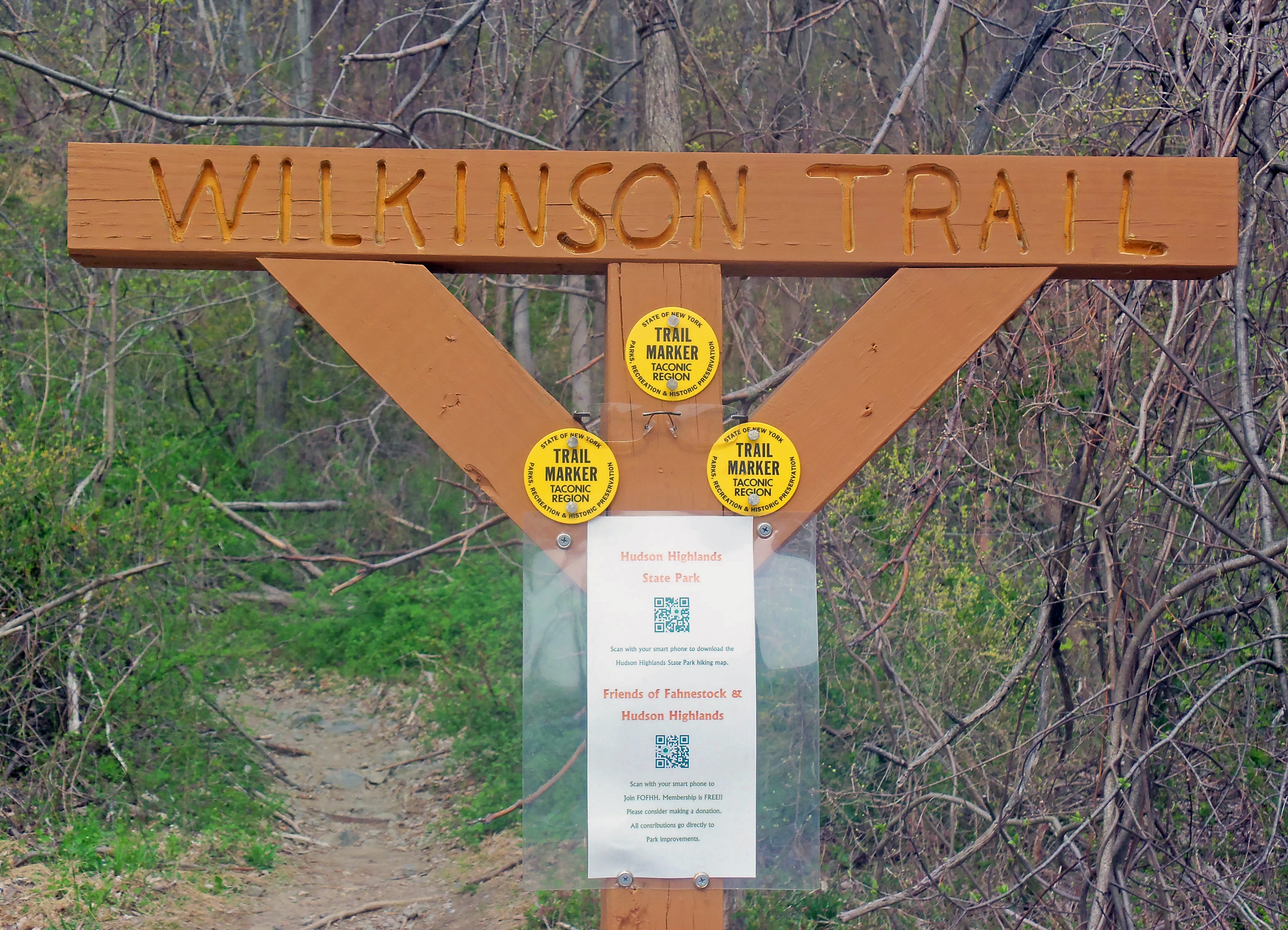 Sign at western trailhead of Wilkinson Memorial Trail in Hudson Highlands State Park, along NY 9D in Fishkill, NY, USA